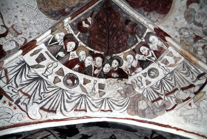 Frescos in Bellinge Kirke